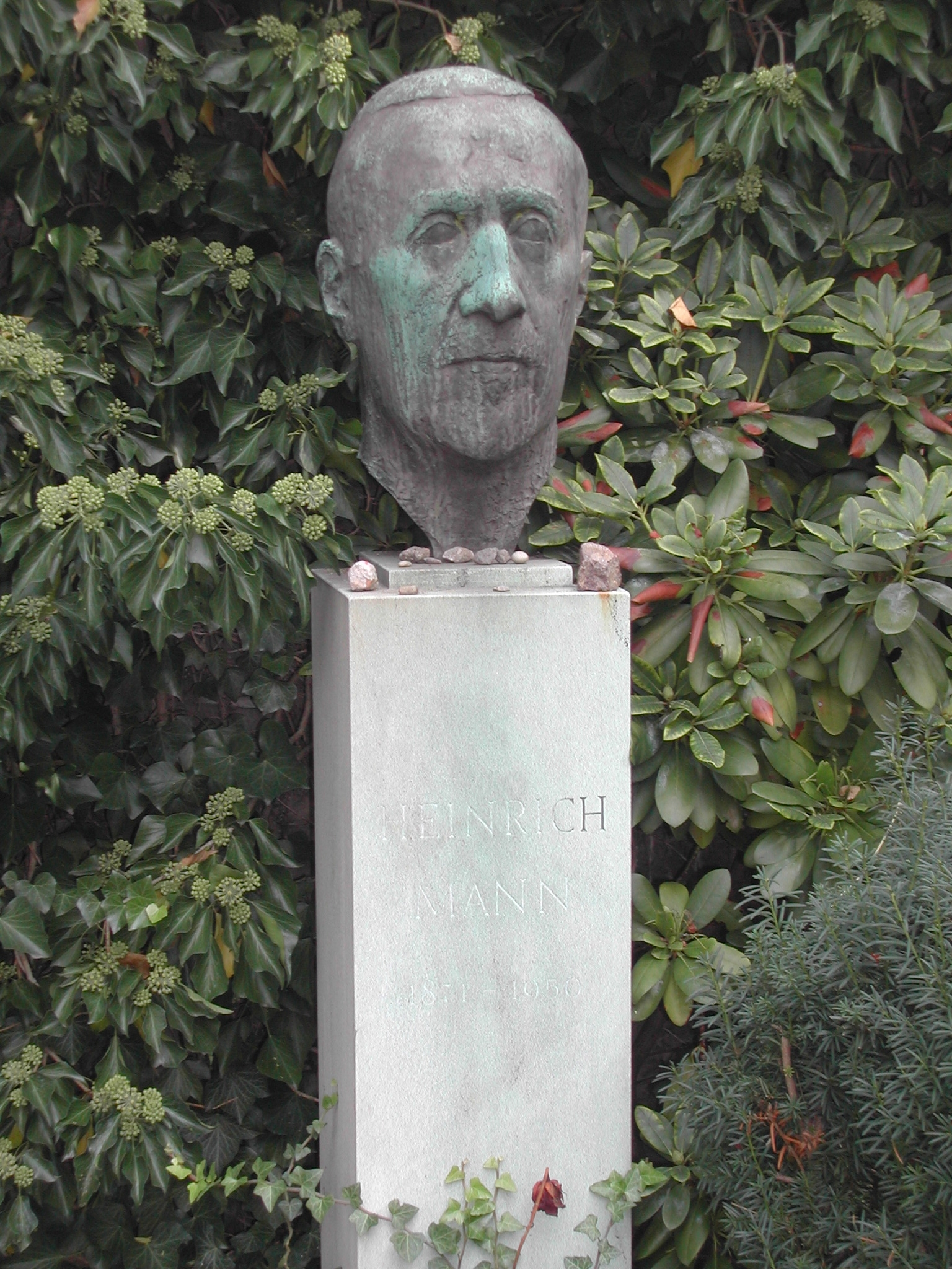 Tomba di Heinrich Mann al Dorotheenstädtischer Friedhof